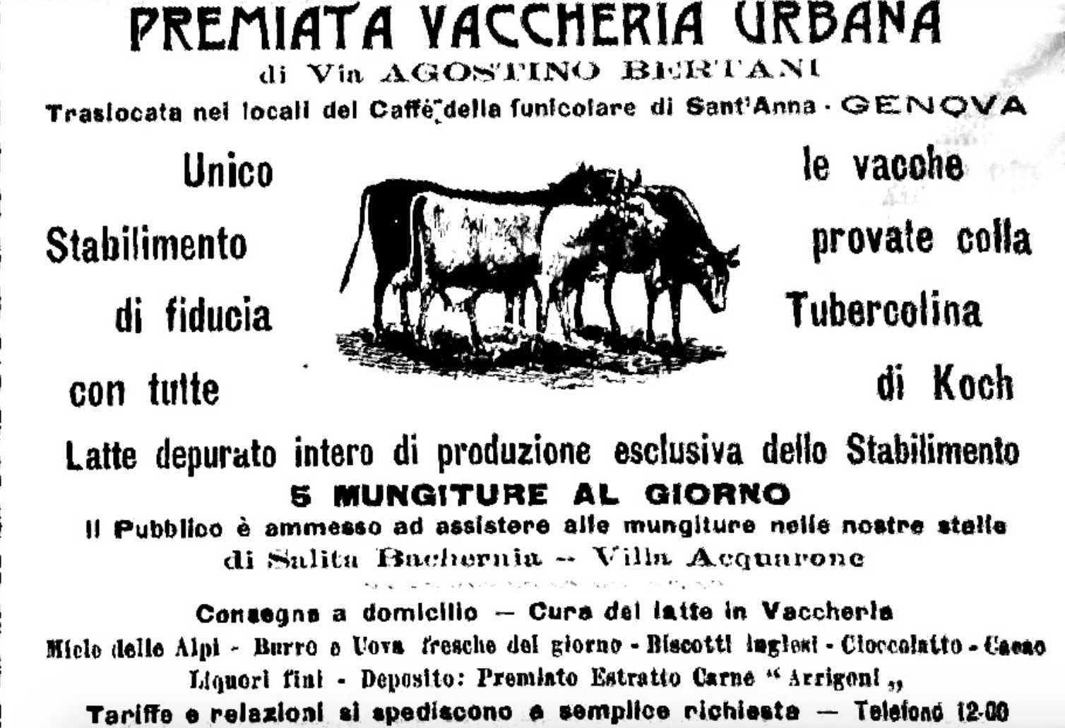 Vaccheria Sant'Anna Genova